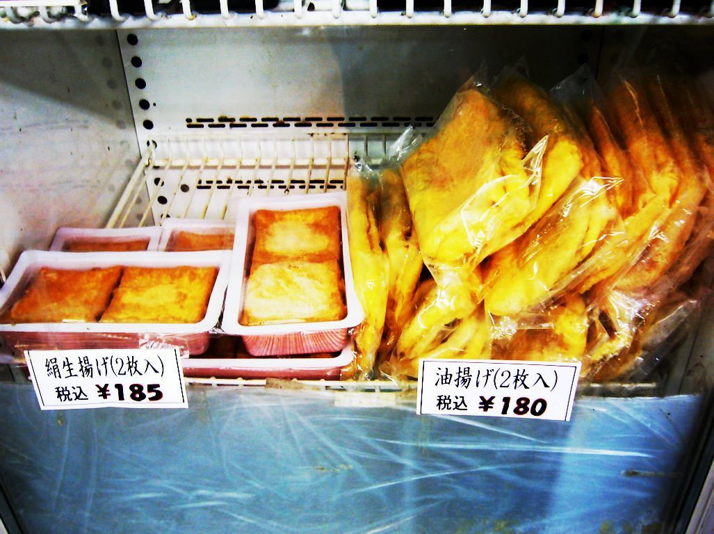 kinu namaage aburaage(aburage) 絹生揚げ（厚揚げ）・油揚げ（薄揚げ） tofu（豆腐）